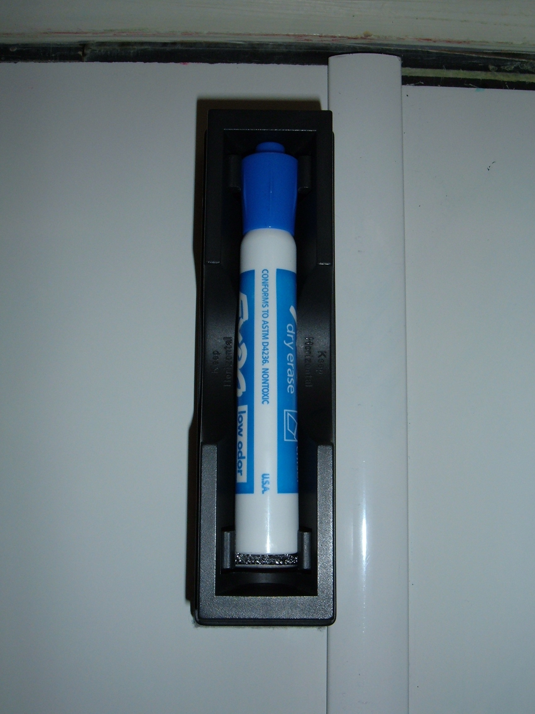 A blue Expo marker pen in a whiteboard holder, found in a classroom in San Mateo, California.